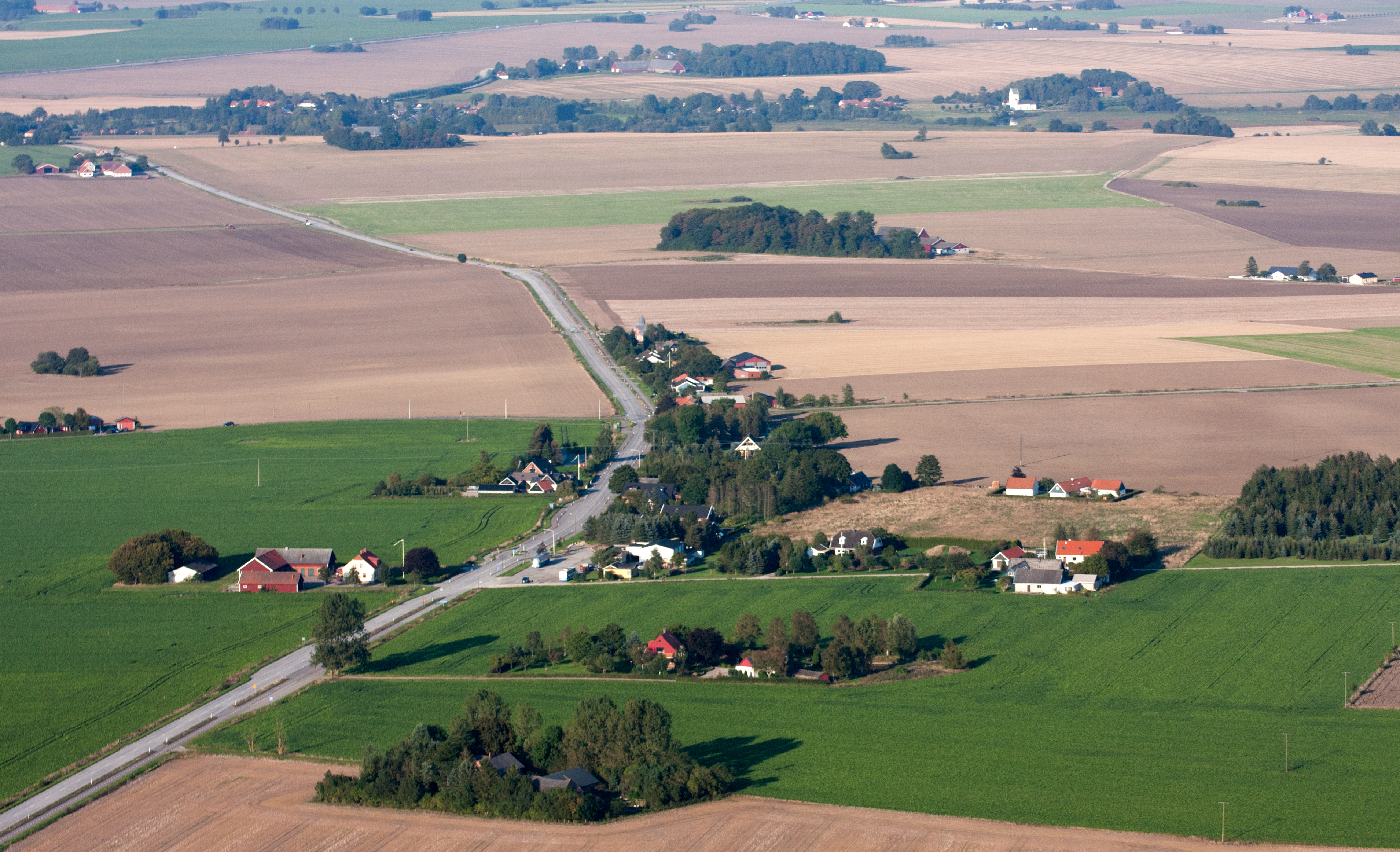 Odarslövsvägen (Odarslöv's Road) near Lund, Sweden. Gårdstånga Church in the background.